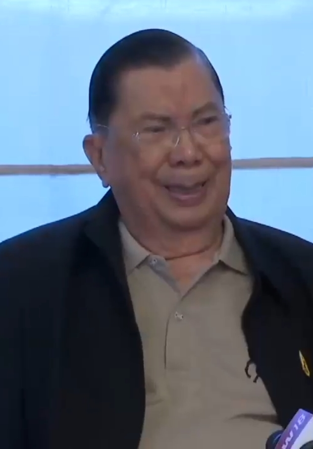 Chavalit Yongchaiyudh 18 May 2018 01 cropped